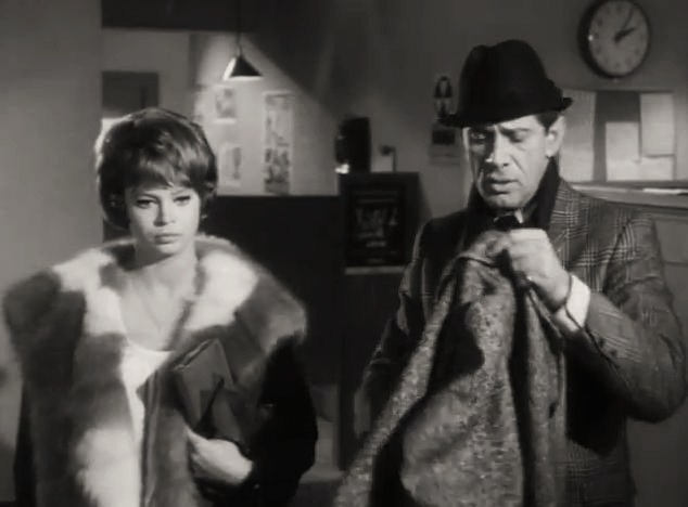 Juliet Prowse & Jan Murray in Who Killed Teddy Bear trailer (cropped screenshot)